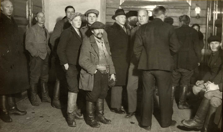 Suspected murderers of Social Democrat politician Onni Happonen (1898–1930) Puustinen & Pakarinen in court, Heinävesi, Finland 1933.